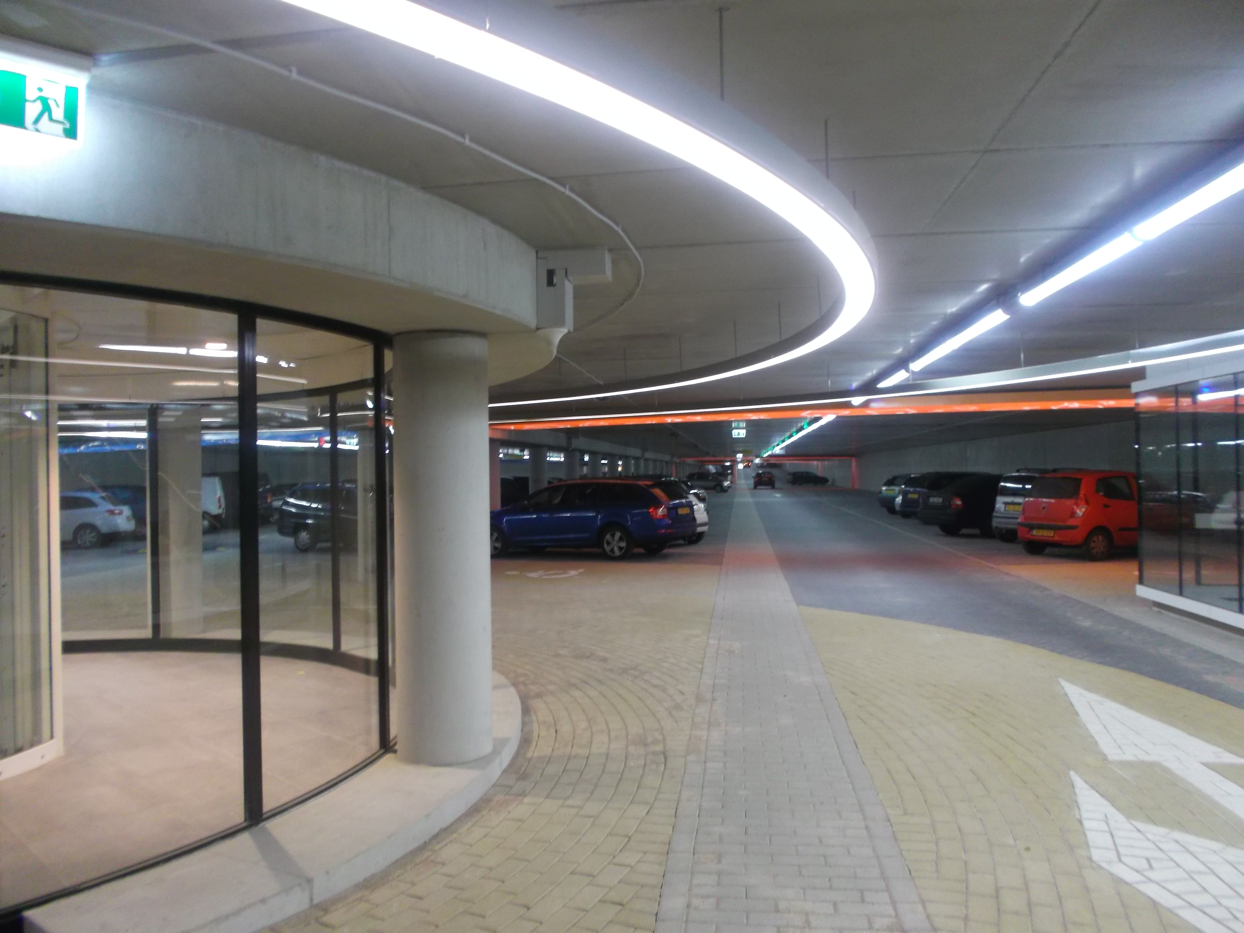 Large parking garage under the boulevard in Katwijk aan Zee, Holland. Built under the coast defence (2012- feb. 2015). Dunes were to low and the beach is higher and longer to protect Katwijk against high water (with a storm or something or for the future (higher sea level).)